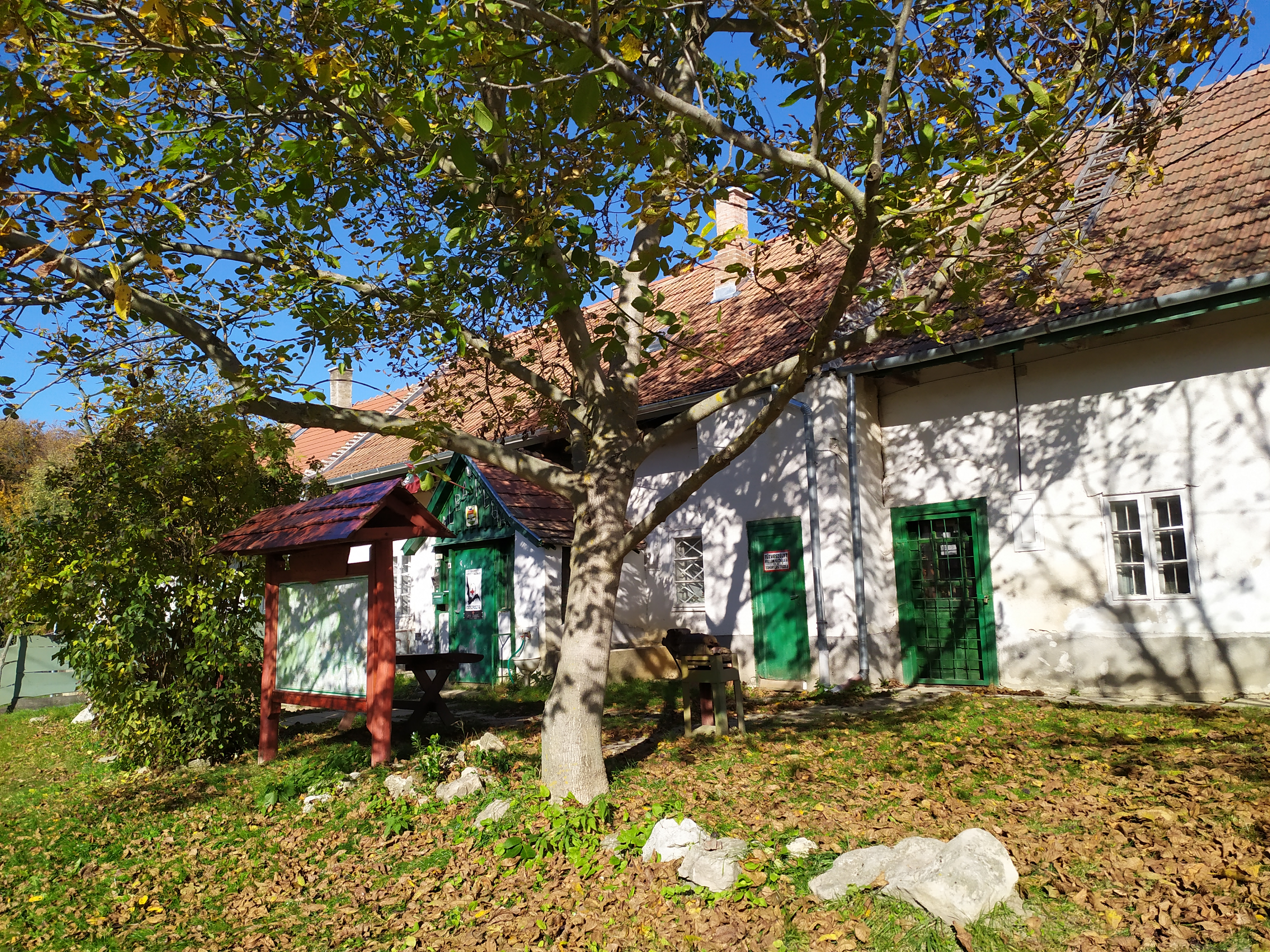 Alba Regia Cave Research Station, Tés-Csőszpuszta